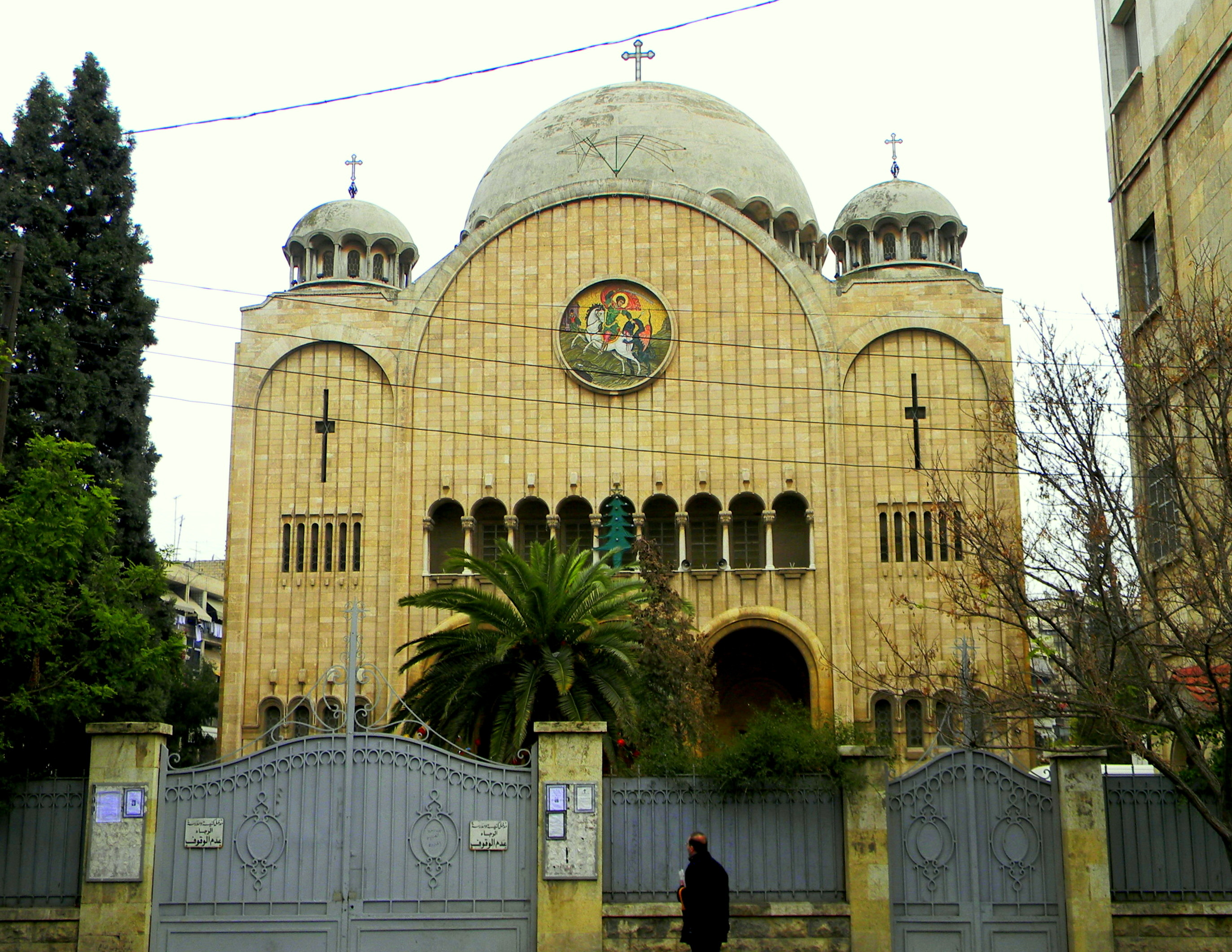 Saint George's Melkite Greek Catholic Church, Aleppo.